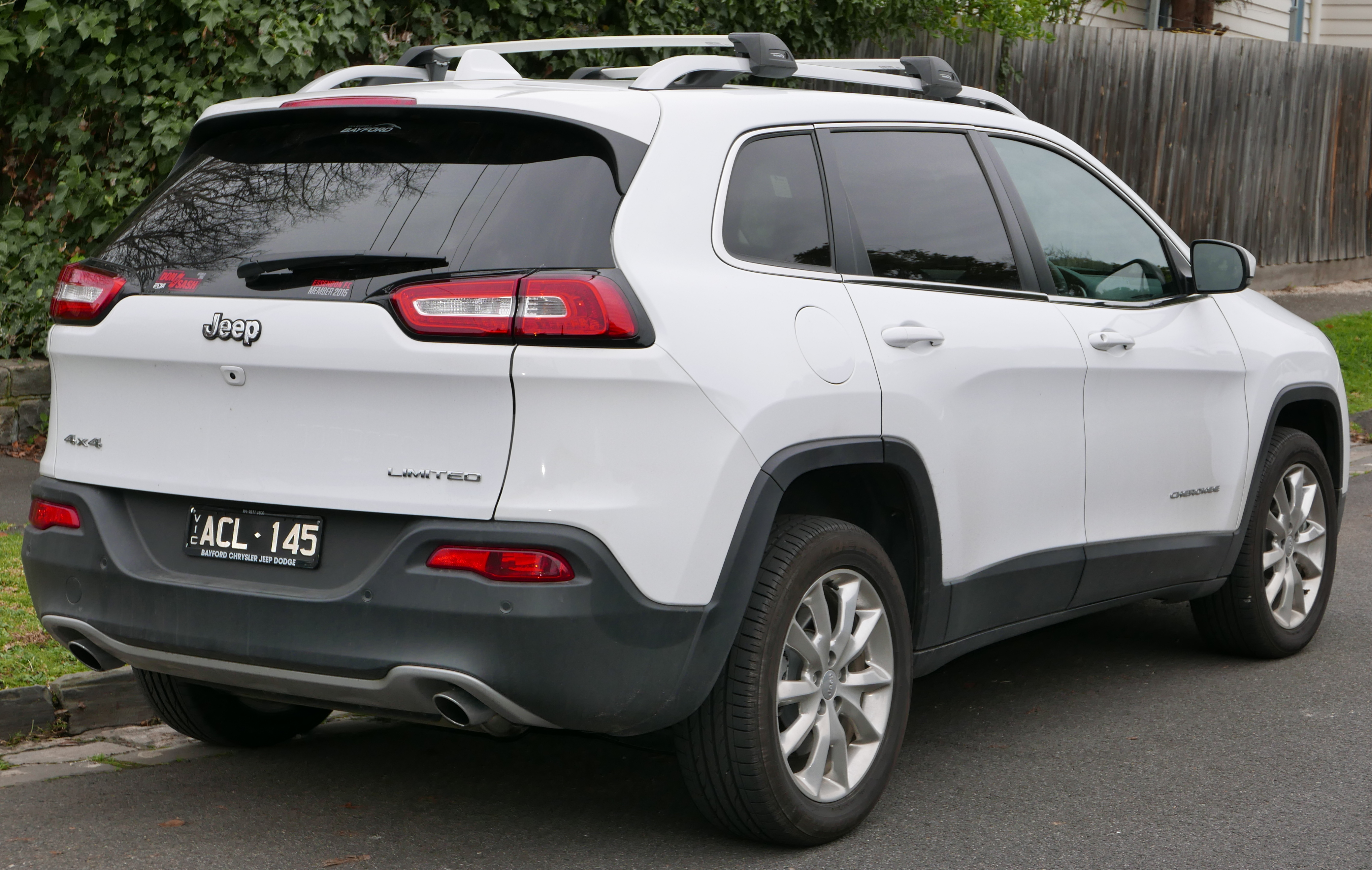 2014 Jeep Cherokee (KL) Sport wagon. Photographed in Kew, Victoria, Australia. Vehicle registration enquiry resultsJurisdictionVictoriaRegistrationACL145Chassis code1C4PJMHS9EW303498Engine codeEW303498Compliance date2014-09Year of manufacture2014